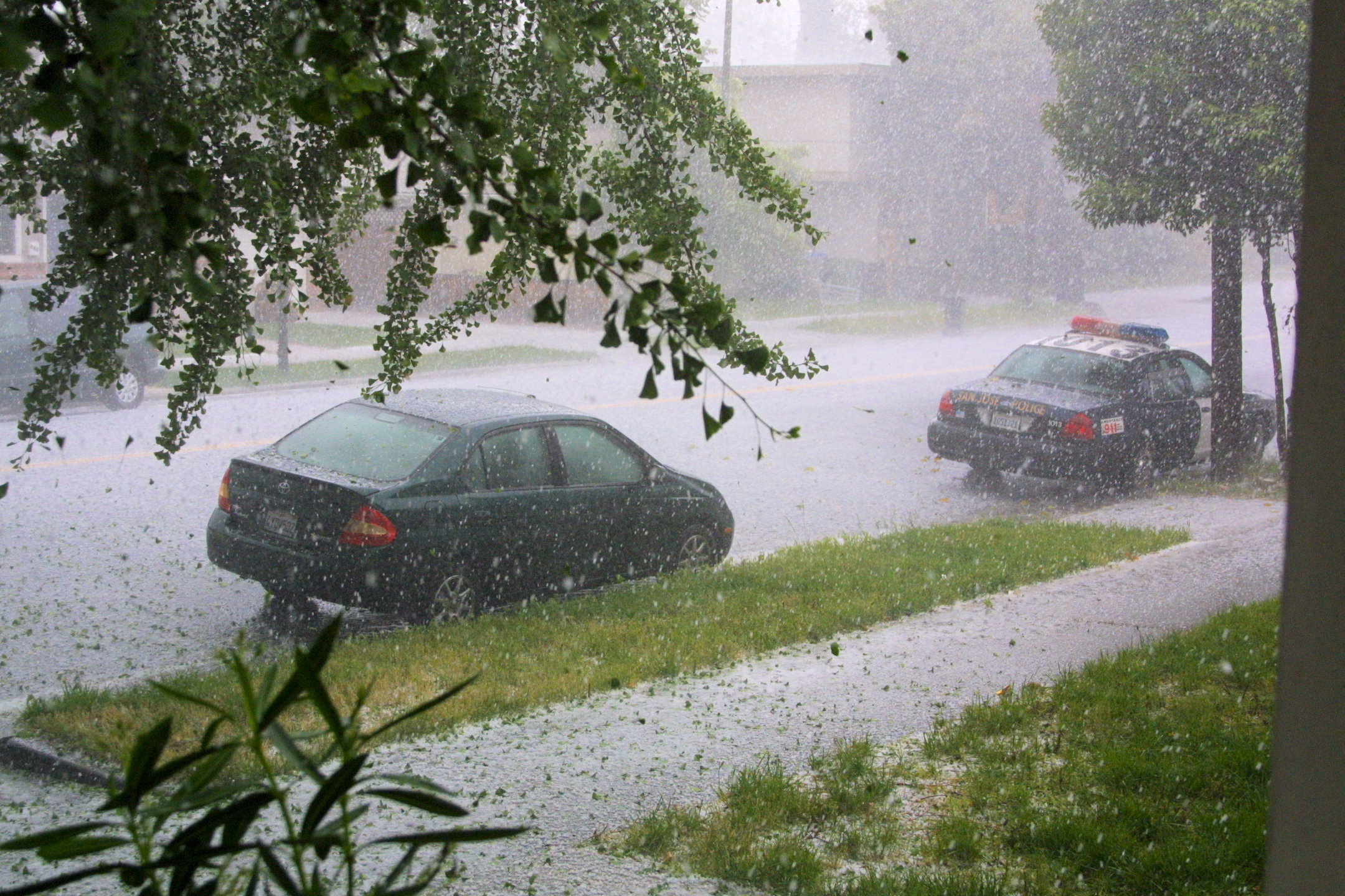 Hail storm, May 9, 2005 1 of 6IMG_0004.JPG